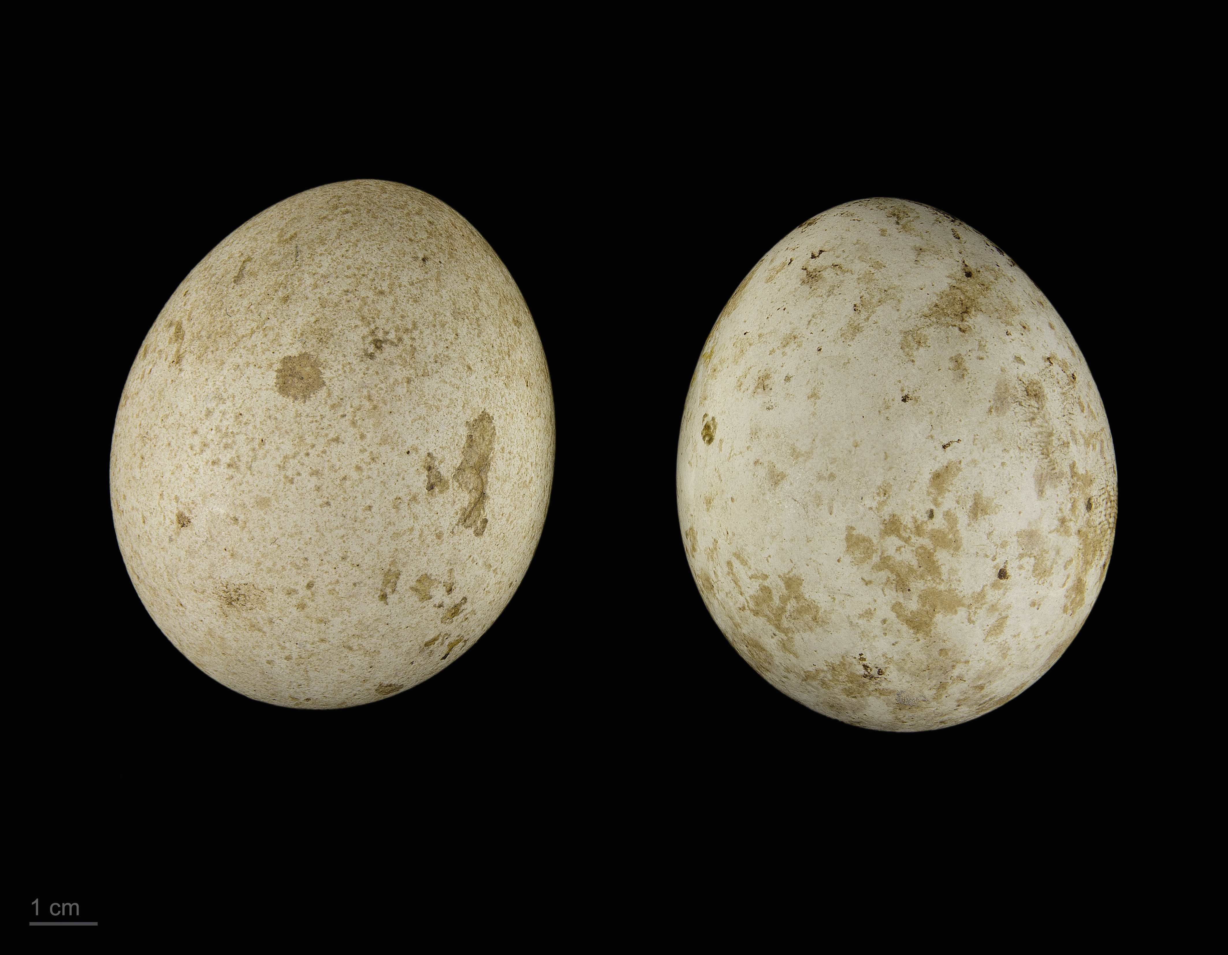 Eggs of Buteo buteo vulpinus Two specimens of the same spawn ; collection of Jacques Perrin de Brichambaut.